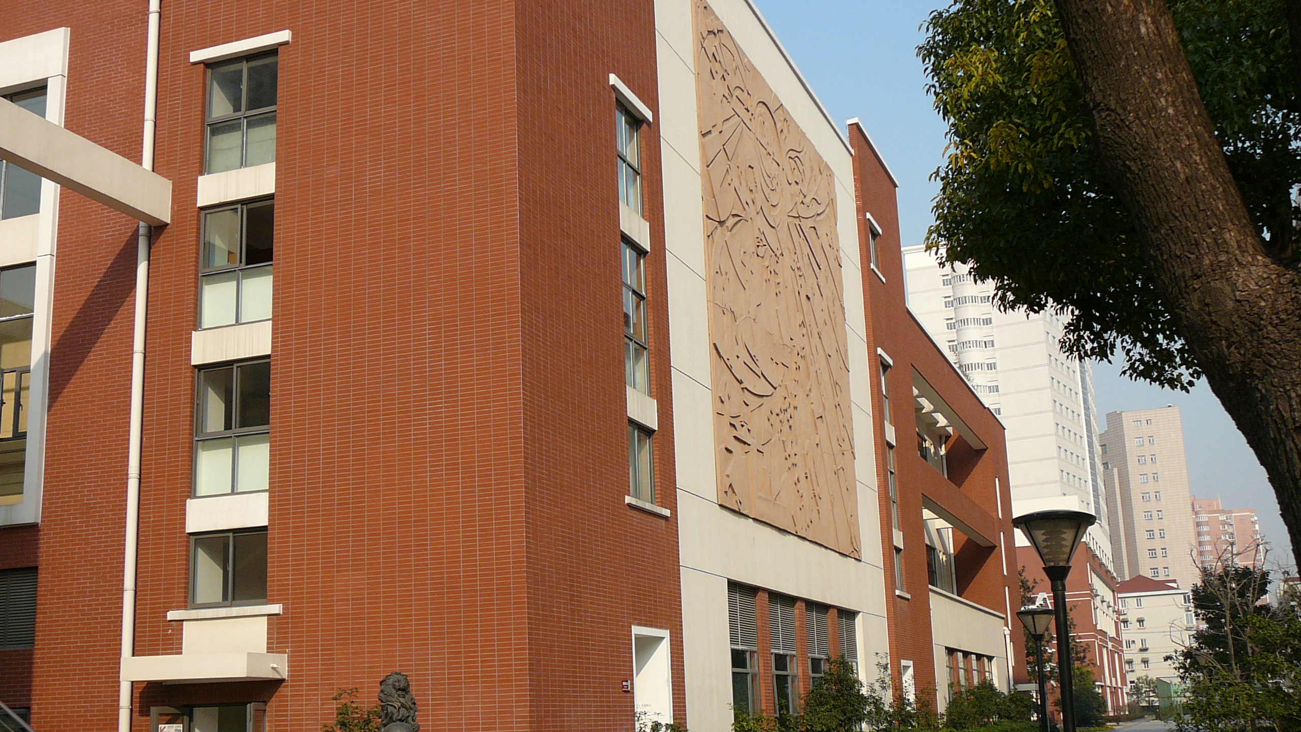 A south view of Shukui Building in a January afternoon